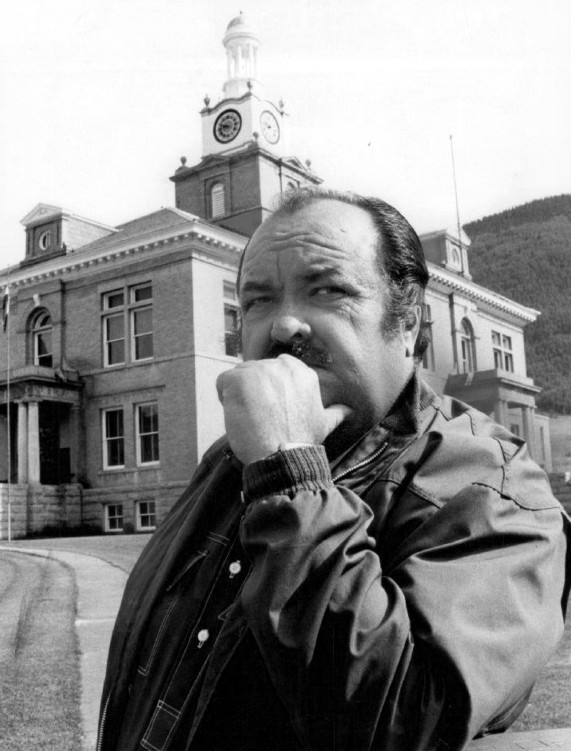 Photo of William Conrad from the television program Cannon.